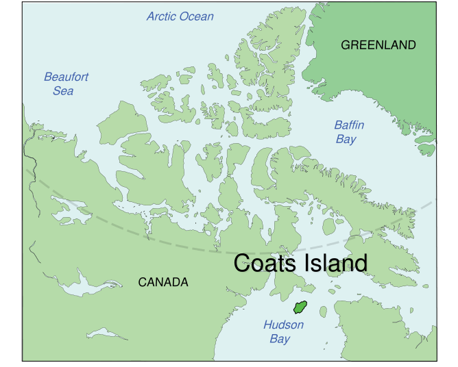 Created based on images from the CIA's World Fact Book.